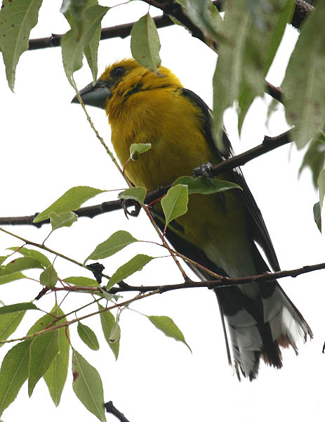 Golden-bellied Grosbeak (Pheucticus chrysogaster) or Southern Yellow-bellied Grosbeak. A male photographed SW of Quito, Ecuador. A watermark saying "© Michael Woodruff 2007" has been removed.